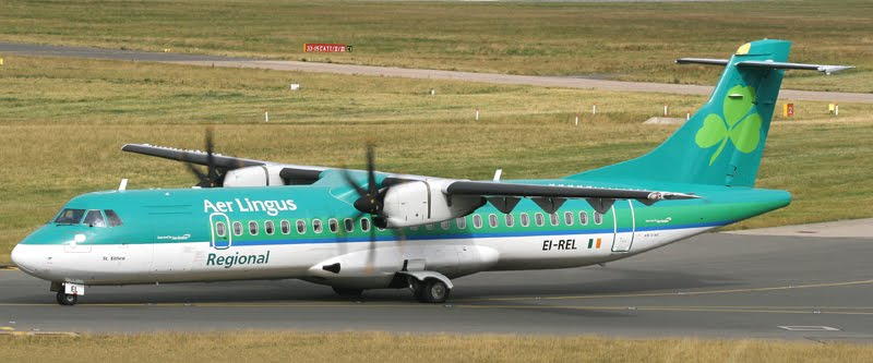 Aer Arann ATR 72-500 Taxiing. EI-REL Taxiing at Birmingham Airport, 21 May 2011.